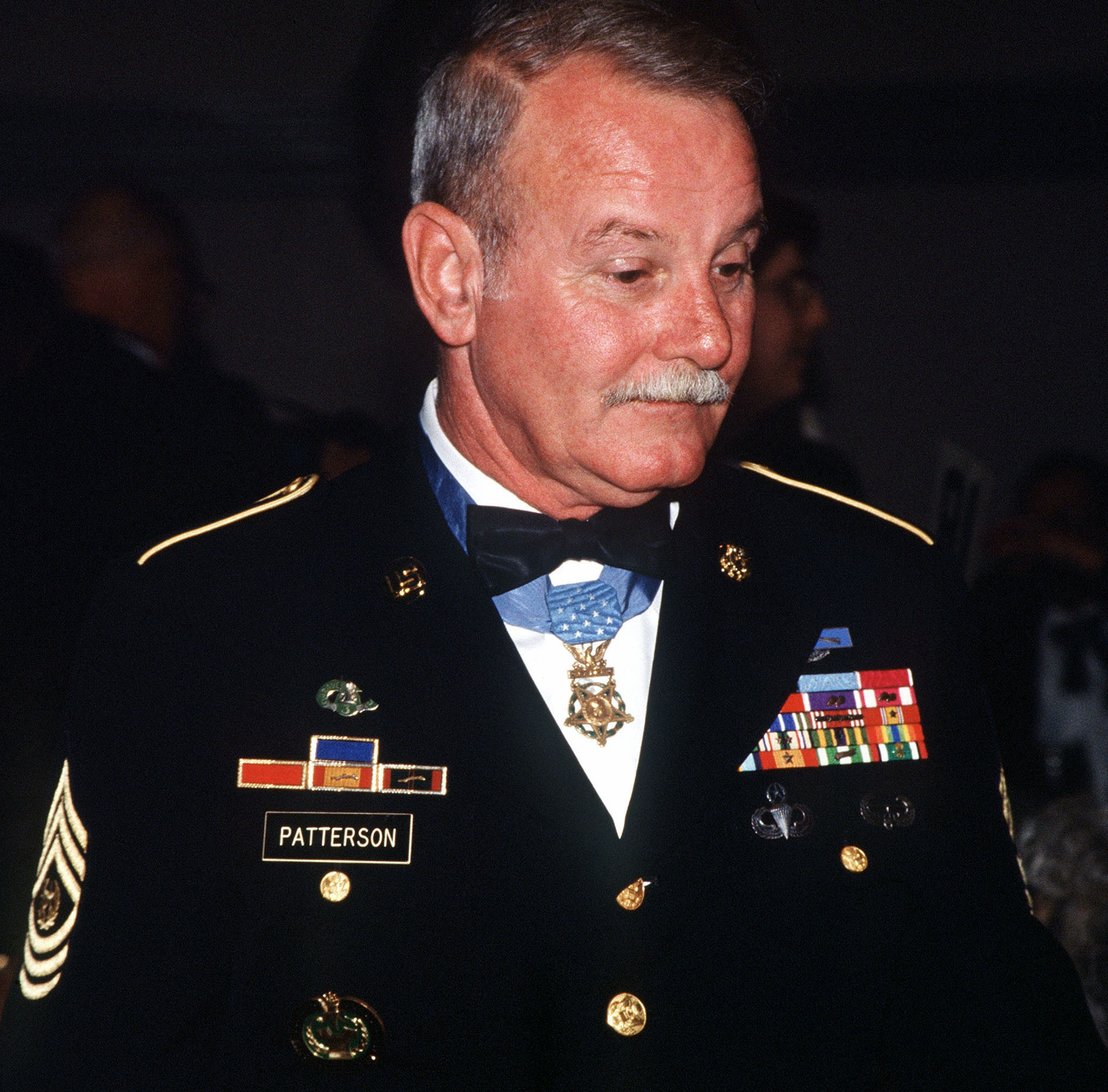 A close up view of Medal of Honor recipient U.S. Army Sergeant Major Robert M. Patterson as he enters the Medal of Honor Ball.